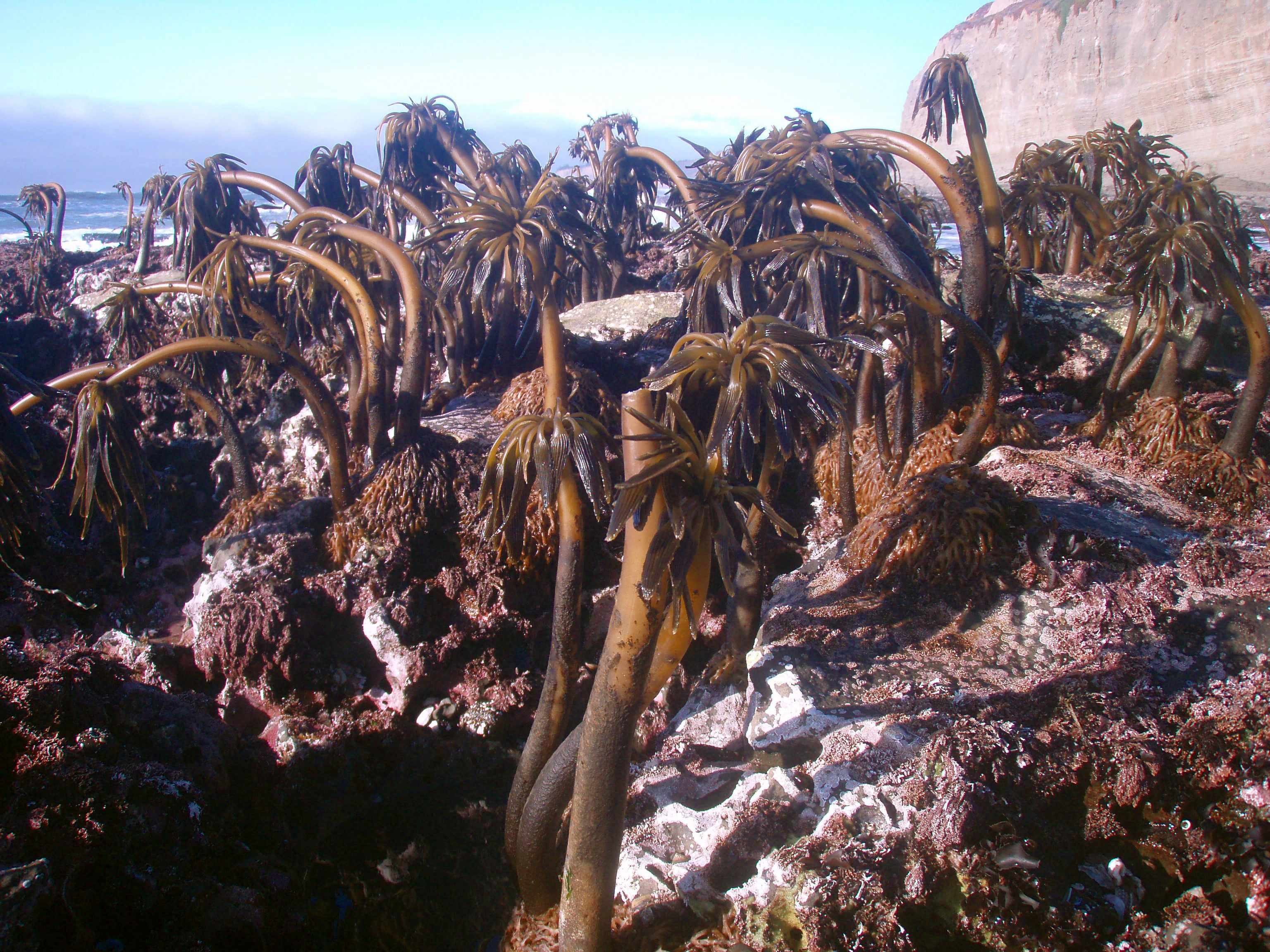 Sea Palm,Postelsia palmaeformis in California tidepool